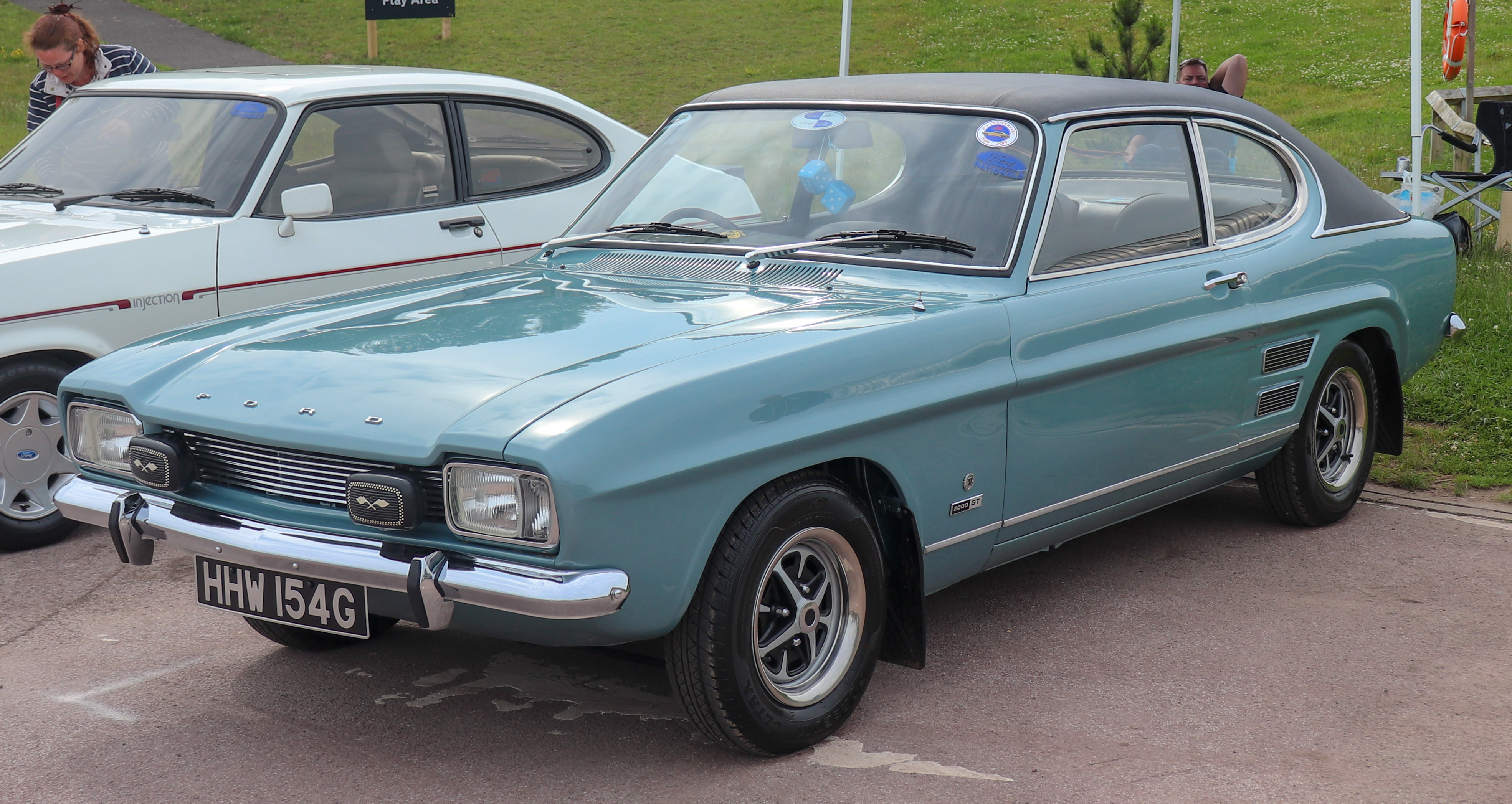 1969 Ford Capri GT 2.0 Front Taken at the Ford Nationals 2019, British Motor Museum, Gaydon